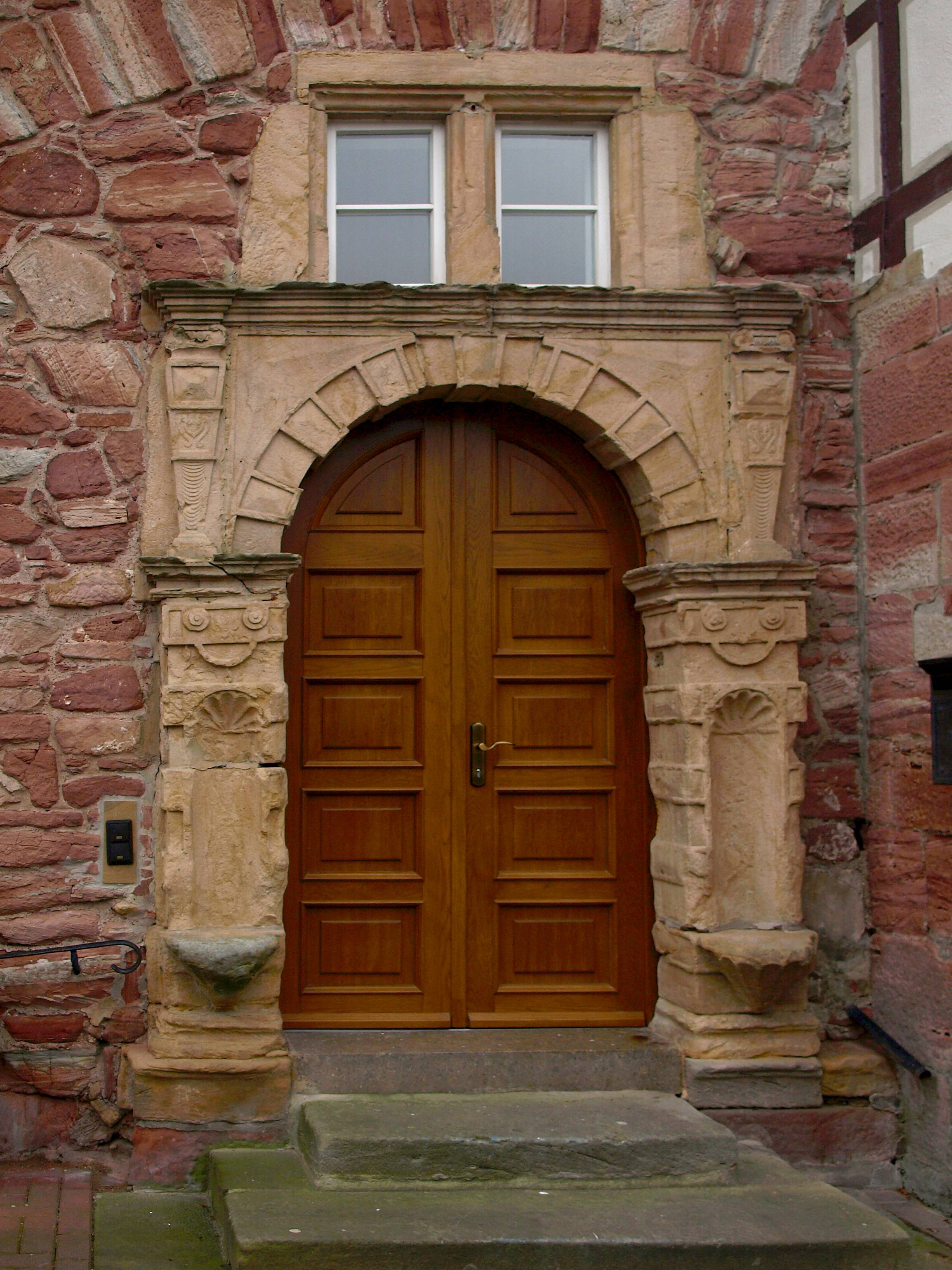 ground floor entrance to the former manor-house of the family von Cornberg in Wildeck-Richelsdorf.